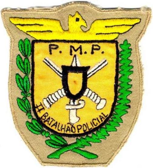 Old coat of arms of 2nd Battalion of Military Police - Parana - Brazil.